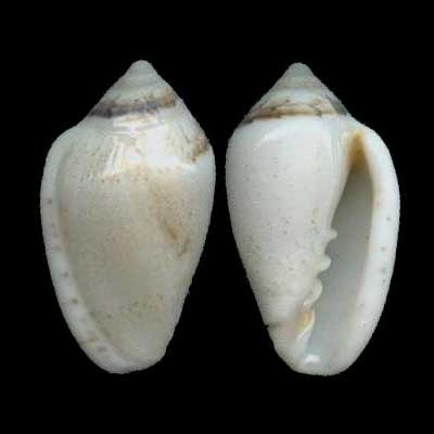 Species: Marginella minuscula (Turton, 1932) Distribution: Jeffreys Bay to Transkey Specimen: Luis Ferreira collection data: sandy reef qt 20m Algoa Bay, South Africa L 13mm